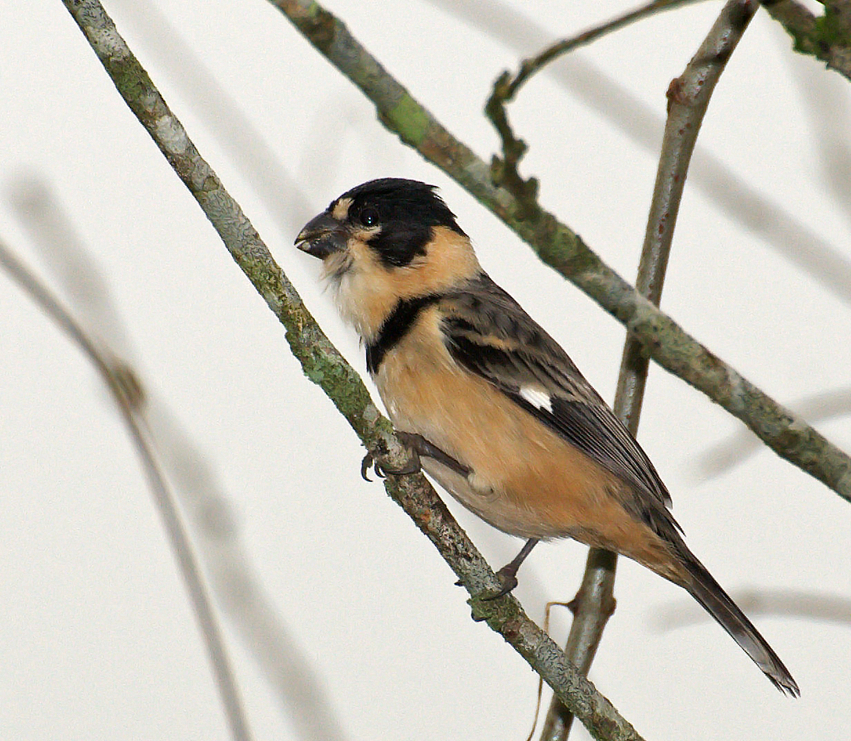 A Rusty-collared Seedeater in Vale do Ribeira, Registro, São Paulo, Brazil.